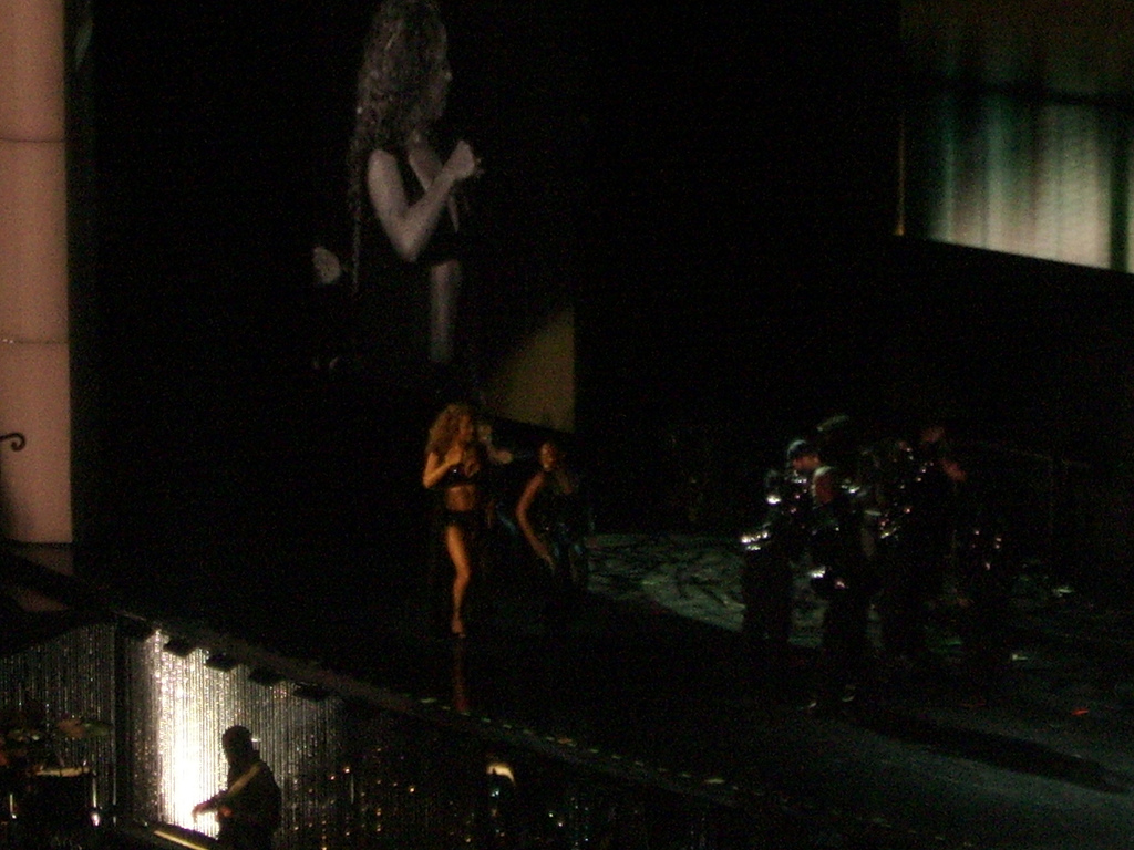 Mariah Carey performing "Dreamlover" on the Adventures of Mimi Tour, 2006.